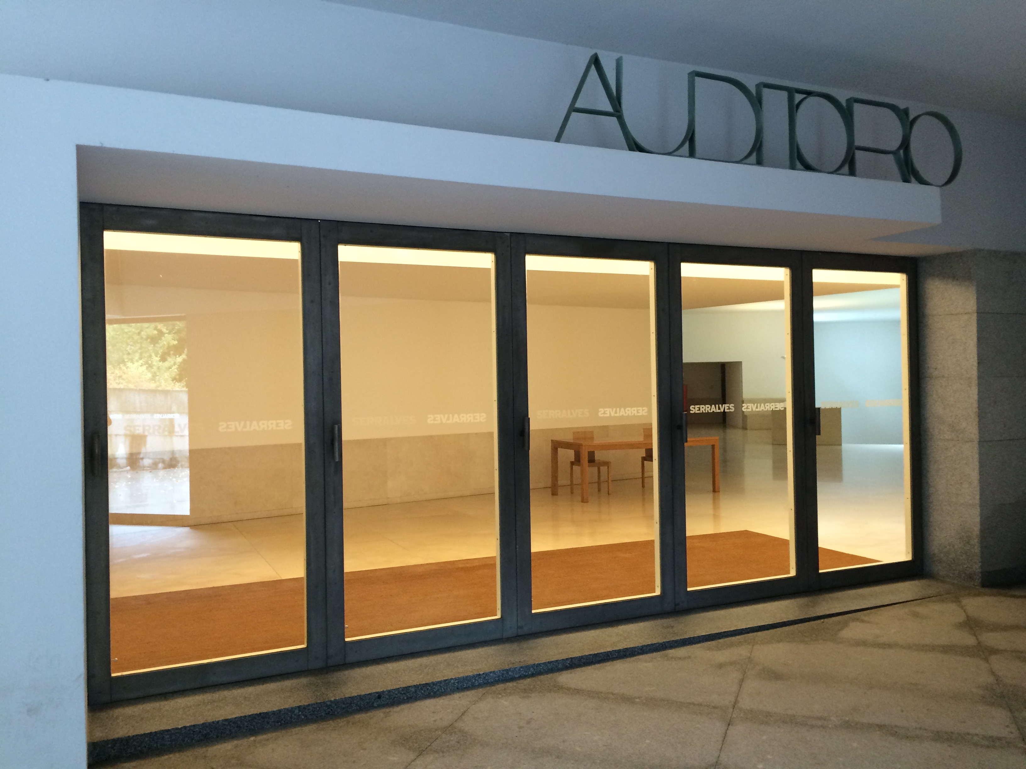 view to the auditorium of the Museum Serralves (Museu de Arte Contemporânea de Serralves) in Porto, Portugal